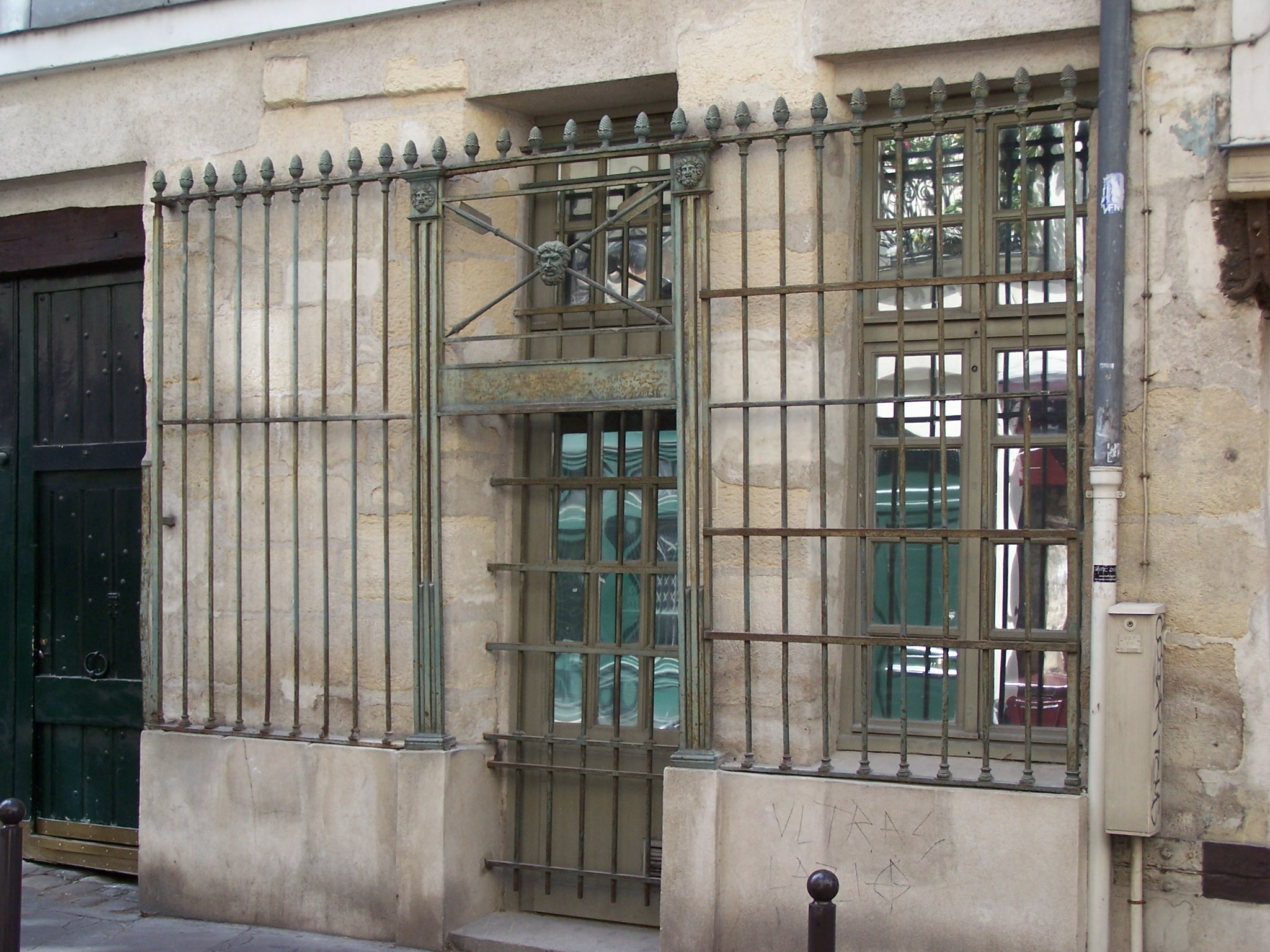 View of the number 6 at rue Frédéric-Sauton where the shop is classified at the Monuments historiques